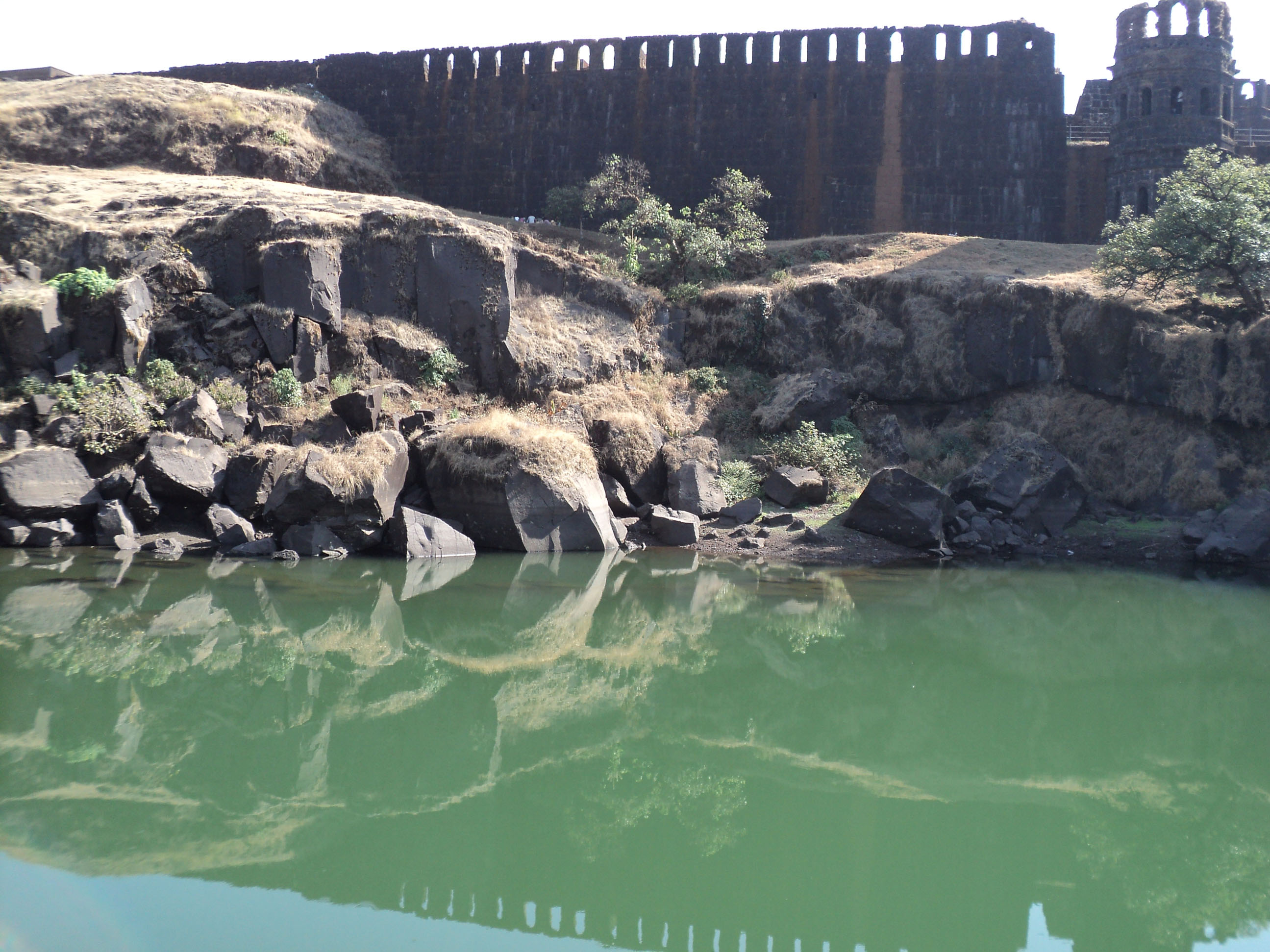 Fort of Raigad